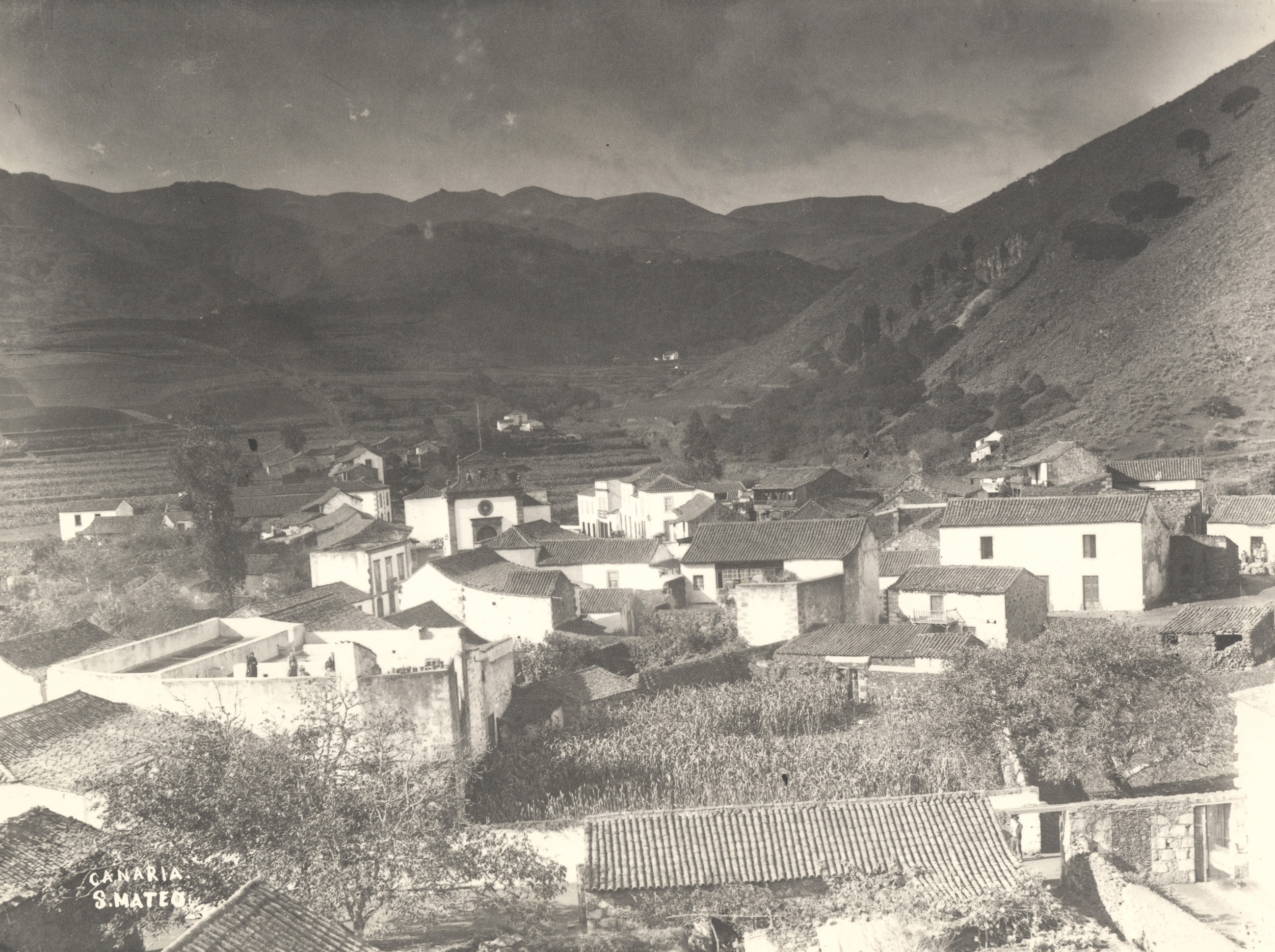 Vega de San Mateo, Gran Canaria (1890). Canary Islands, Spain.